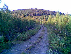 Mustagumbuberget, Sweden.